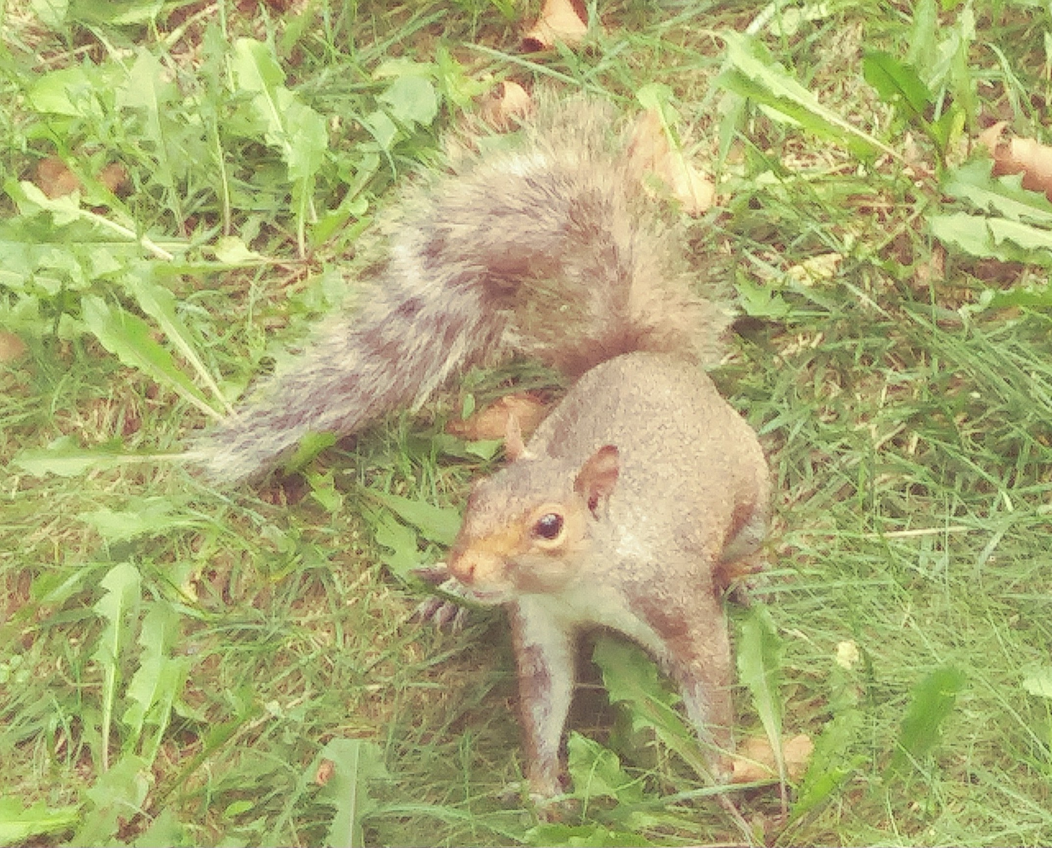 Eastern gray squirrel (Sciurus carolinensis) in Central Park